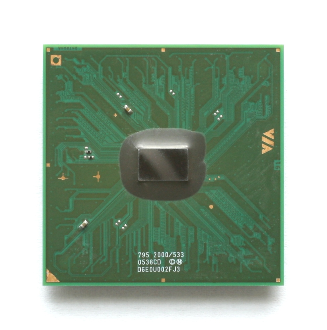 CPU VIA C7.